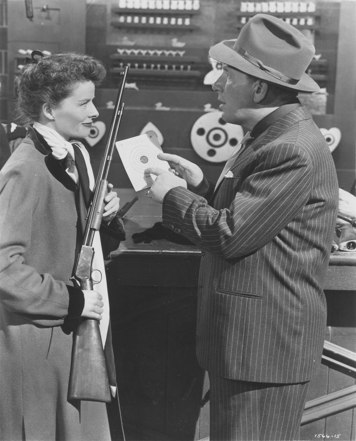 Katharine Hepburn and Spencer Tracy in the American romantic comedy Pat and Mike (1952). See also film still. No copyright notice.